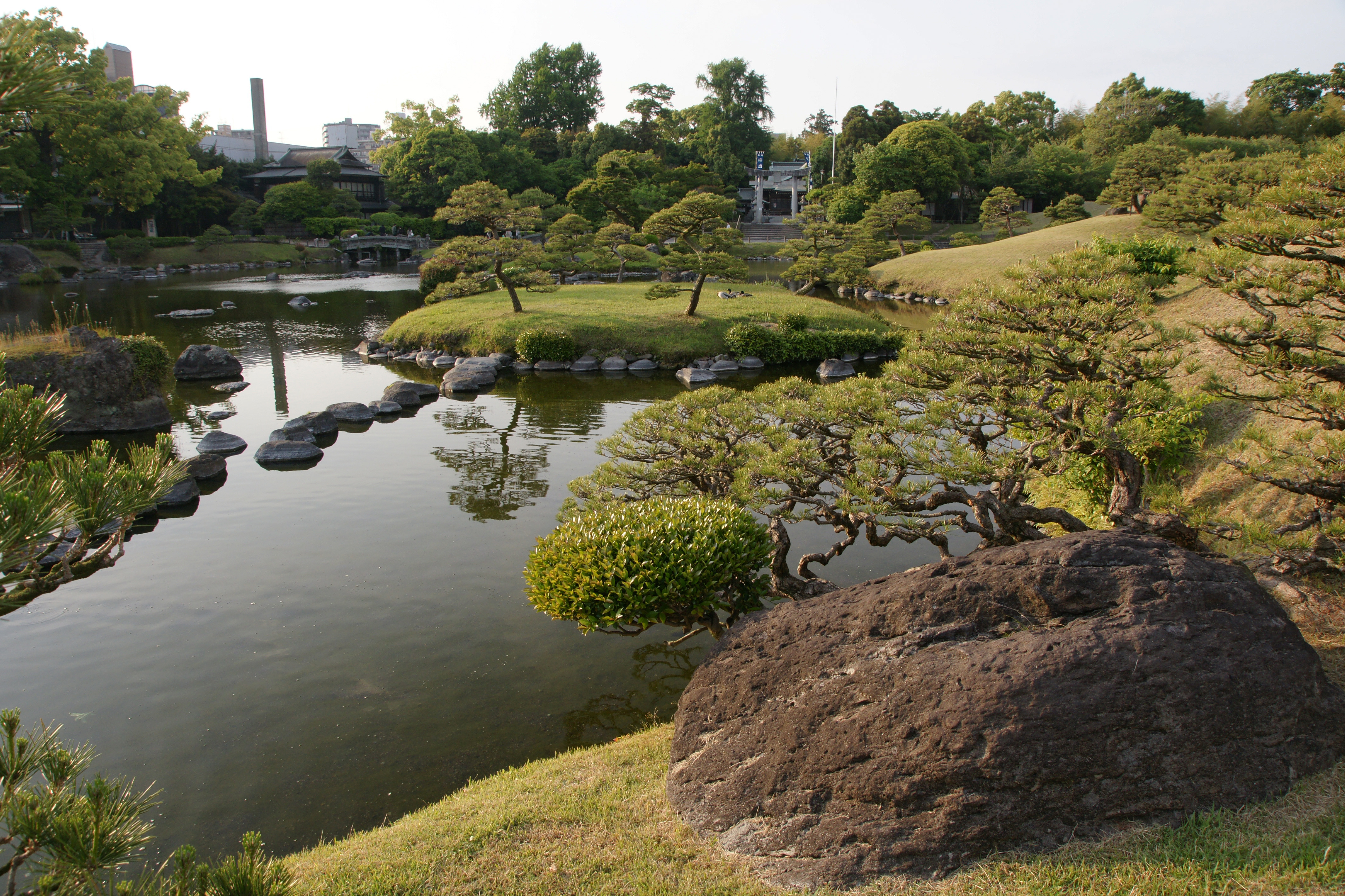 Suizenji-jojuen, Kumamoto, Kumamoto prefecture, Japan